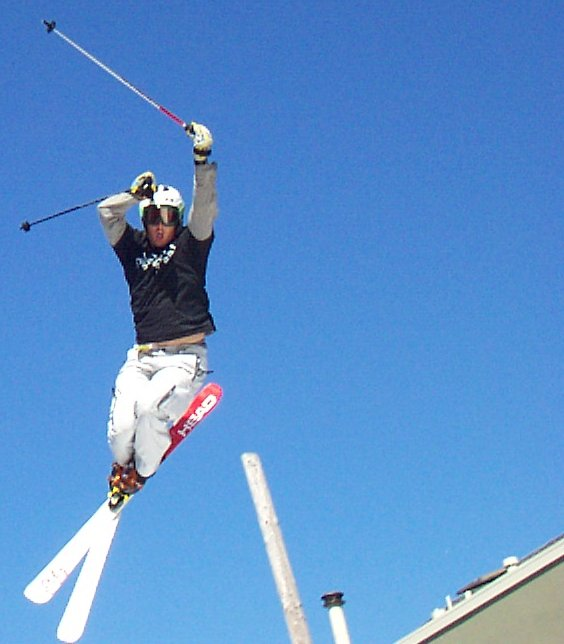 Jonny Moseley, on his 30th birthday, at the Icer Air 2005 event held on the streets of San Francisco, September 29, 2005.